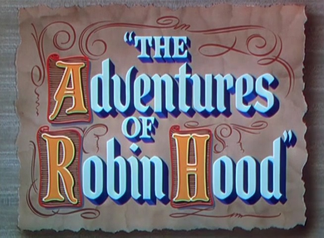 Screenshot of the title screen of the trailer.